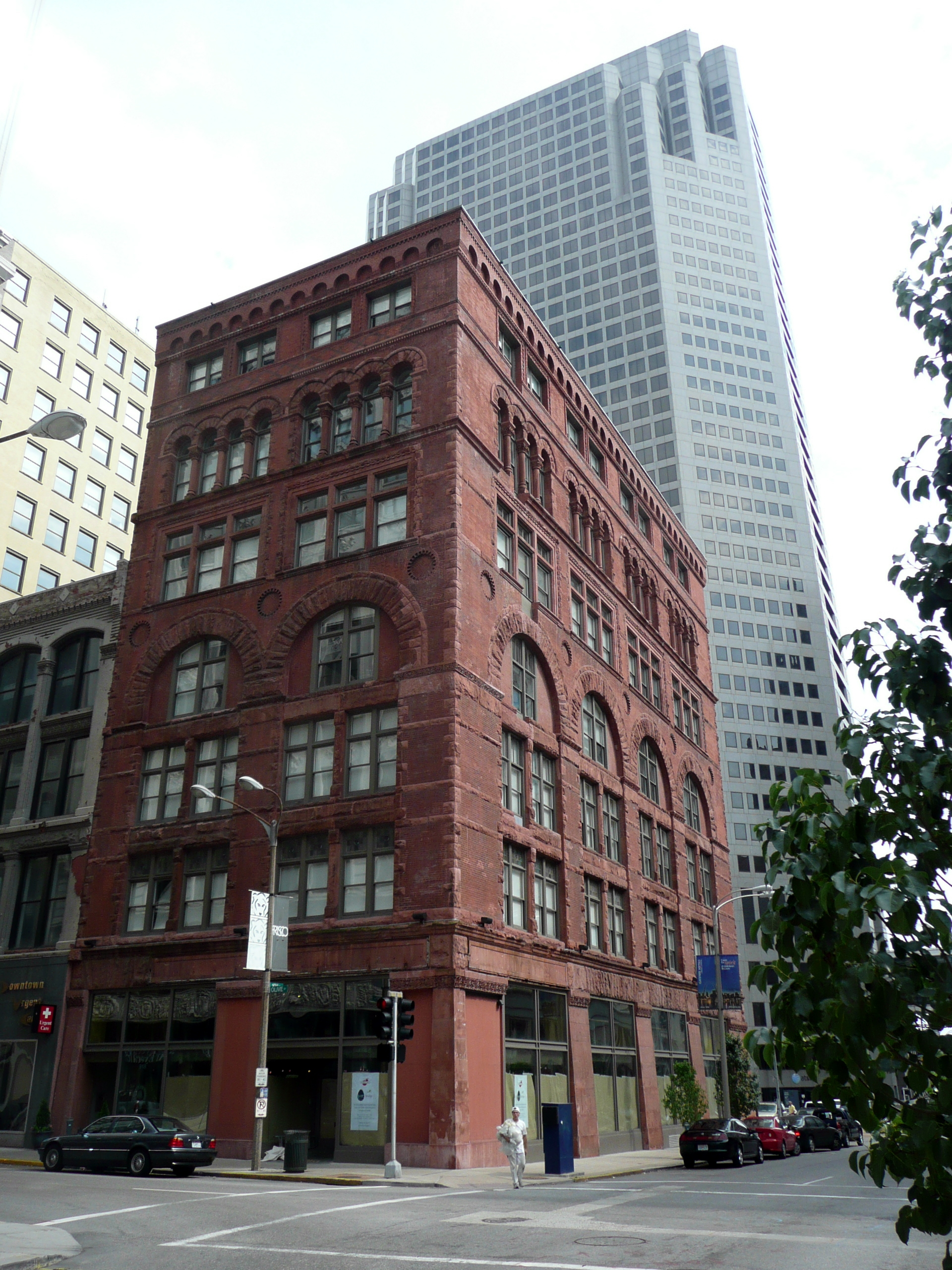 920 Olive Street, St Louis. Designed by Shepley, Rutan & Coolidge and completed in 1890 as the original Southwestern Bell Telephone building. it was converted to flats in 2004.